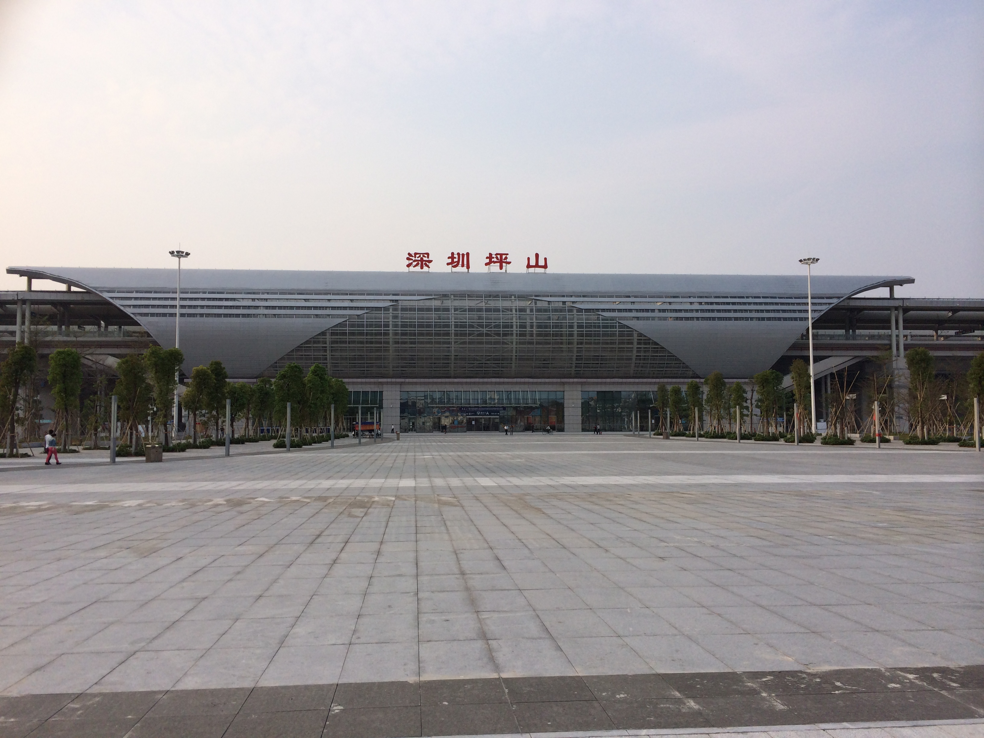 East square of Shenzhen Pingshan Railway Station